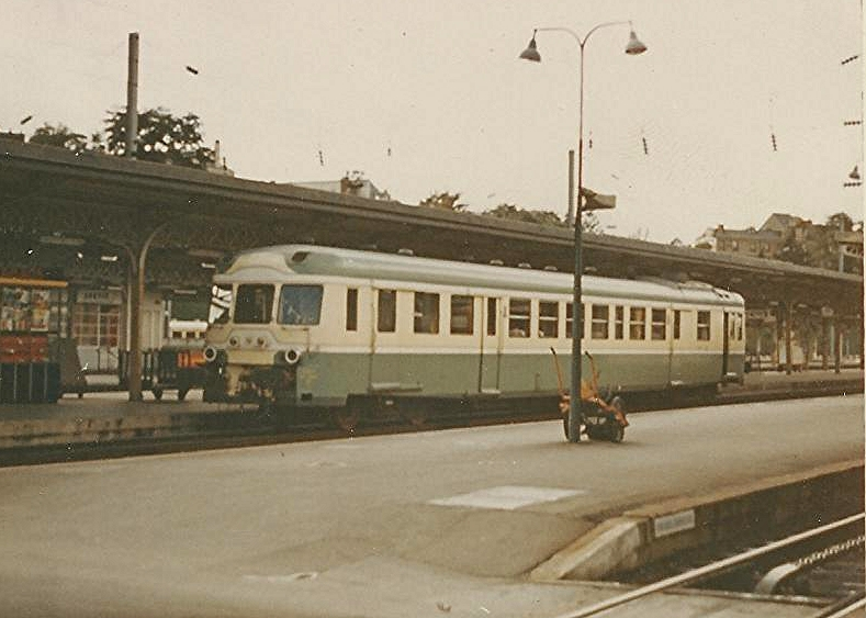 Not sure what this is, but think it is an SNCF Renault "Aunis" type diesel hydraulic railcar at Laval, 04/69. Scanned photograph taken with an Exacta camera.